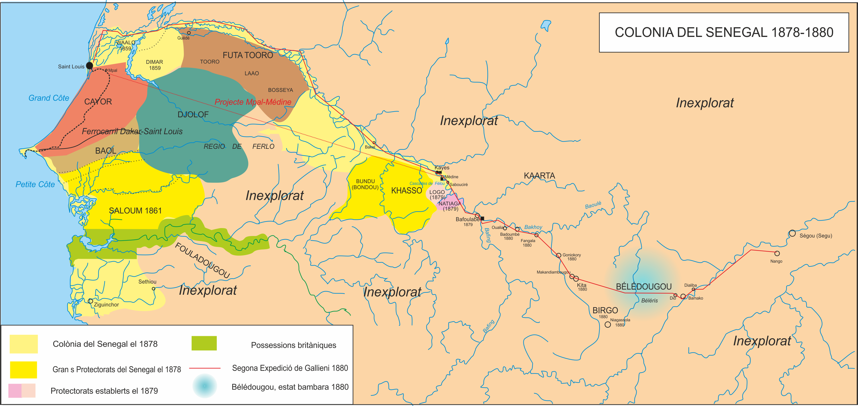 Senegal-Mali 1879-1880